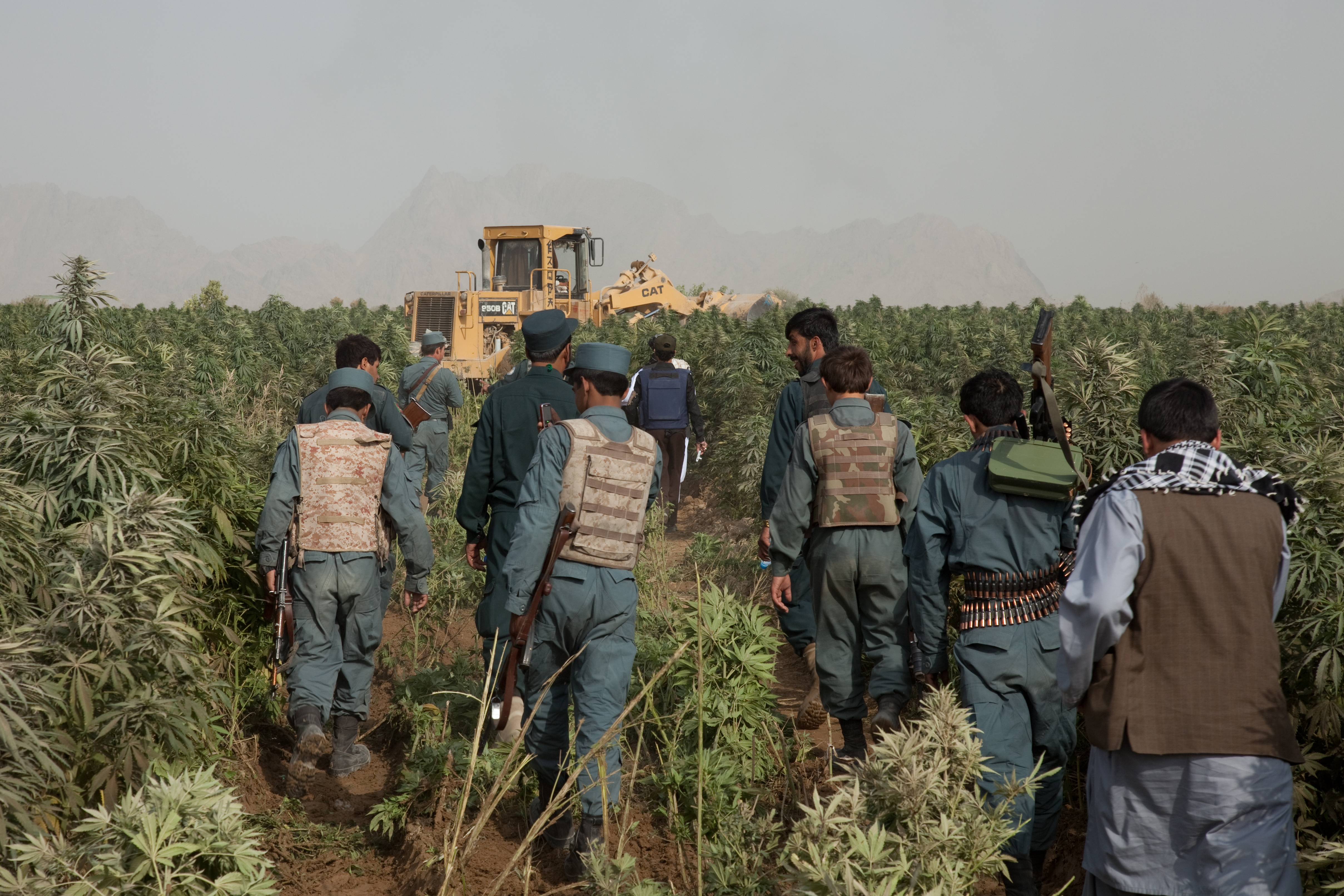 Members of the Afghanistan Uniformed Police follow a bucket loader into a marijuana field to provide security during the eradication of the field, Zharay district, Kandahar province, Afghanistan, Oct. 5.